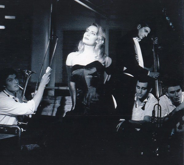 Alexia Sings the Classics (H Alexia Erminevi ta Klasika) in 1993